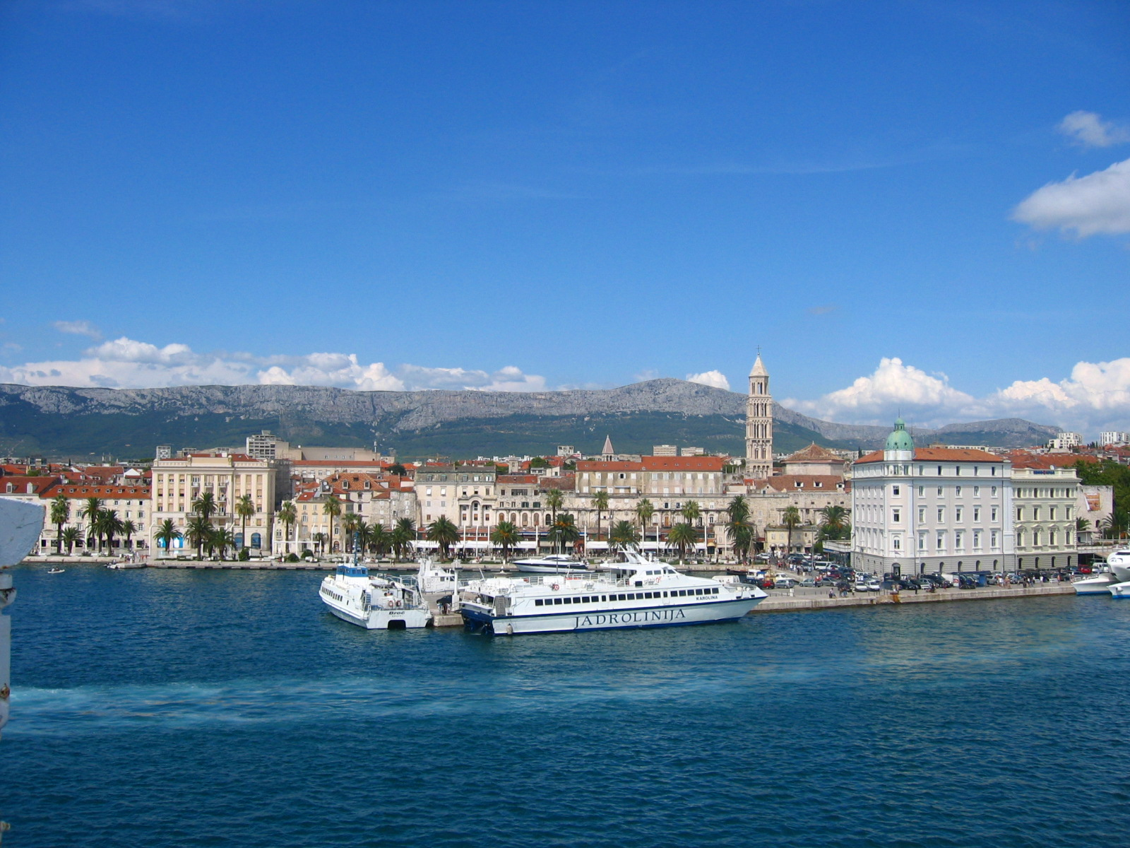 The Old Town of Split, seen from a ferry boat, Croatia.